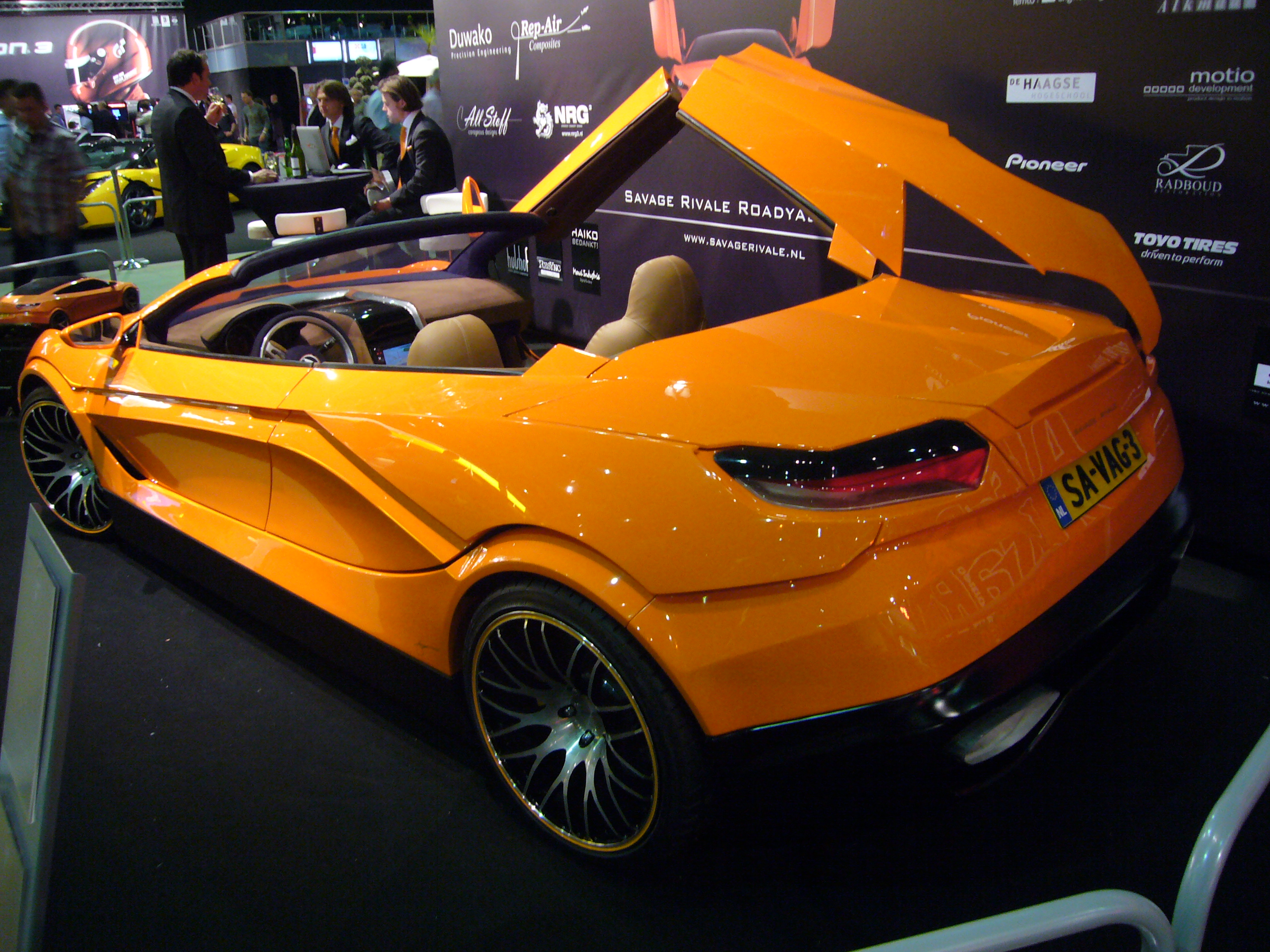 Savage Rivale Roadyacht GTS at AutoRAI Amsterdam 2009